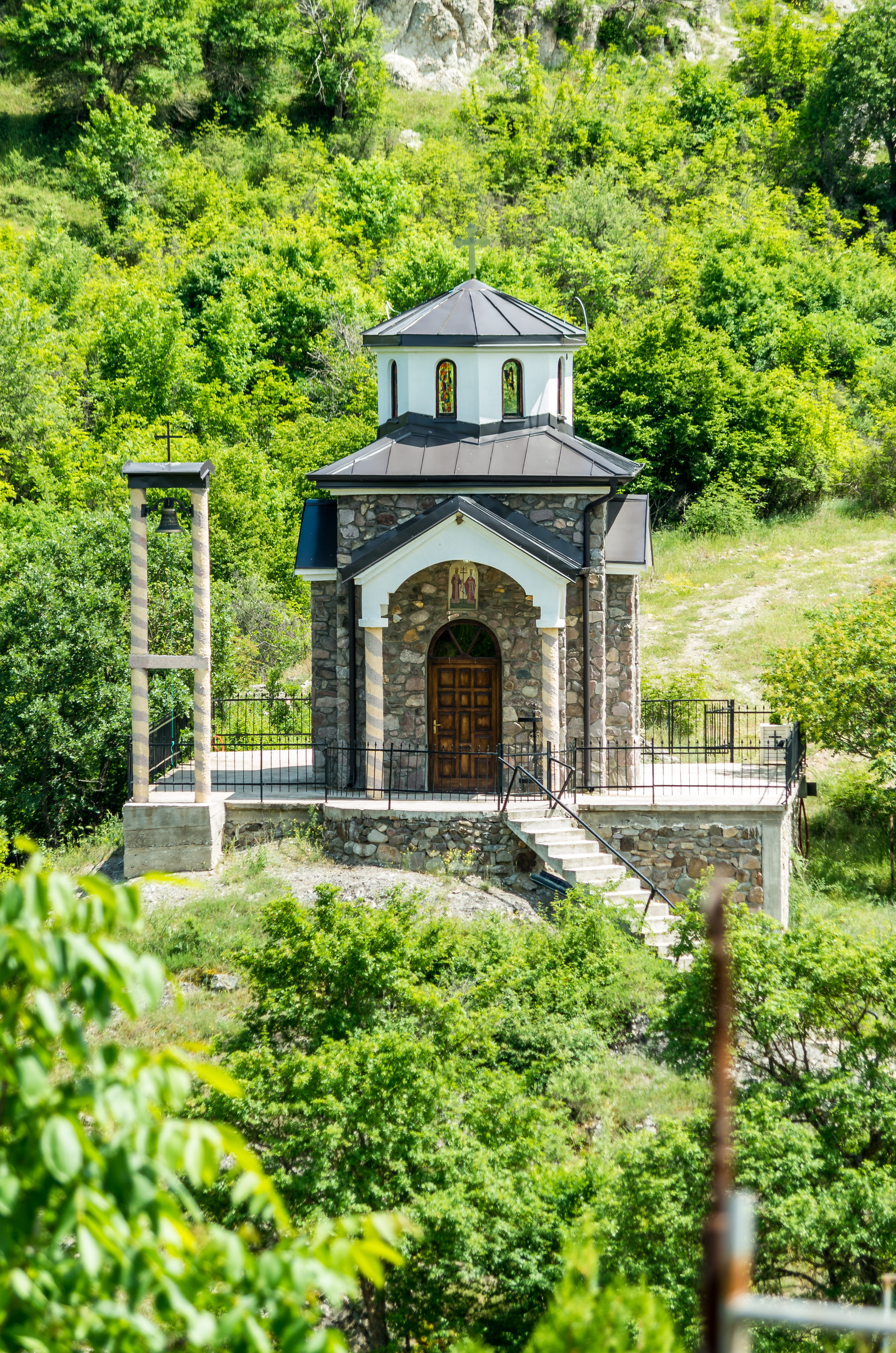 Поглед на главната селска црква „Св. Константин и Елена“ во маало Стојкарци во селото Вак’в